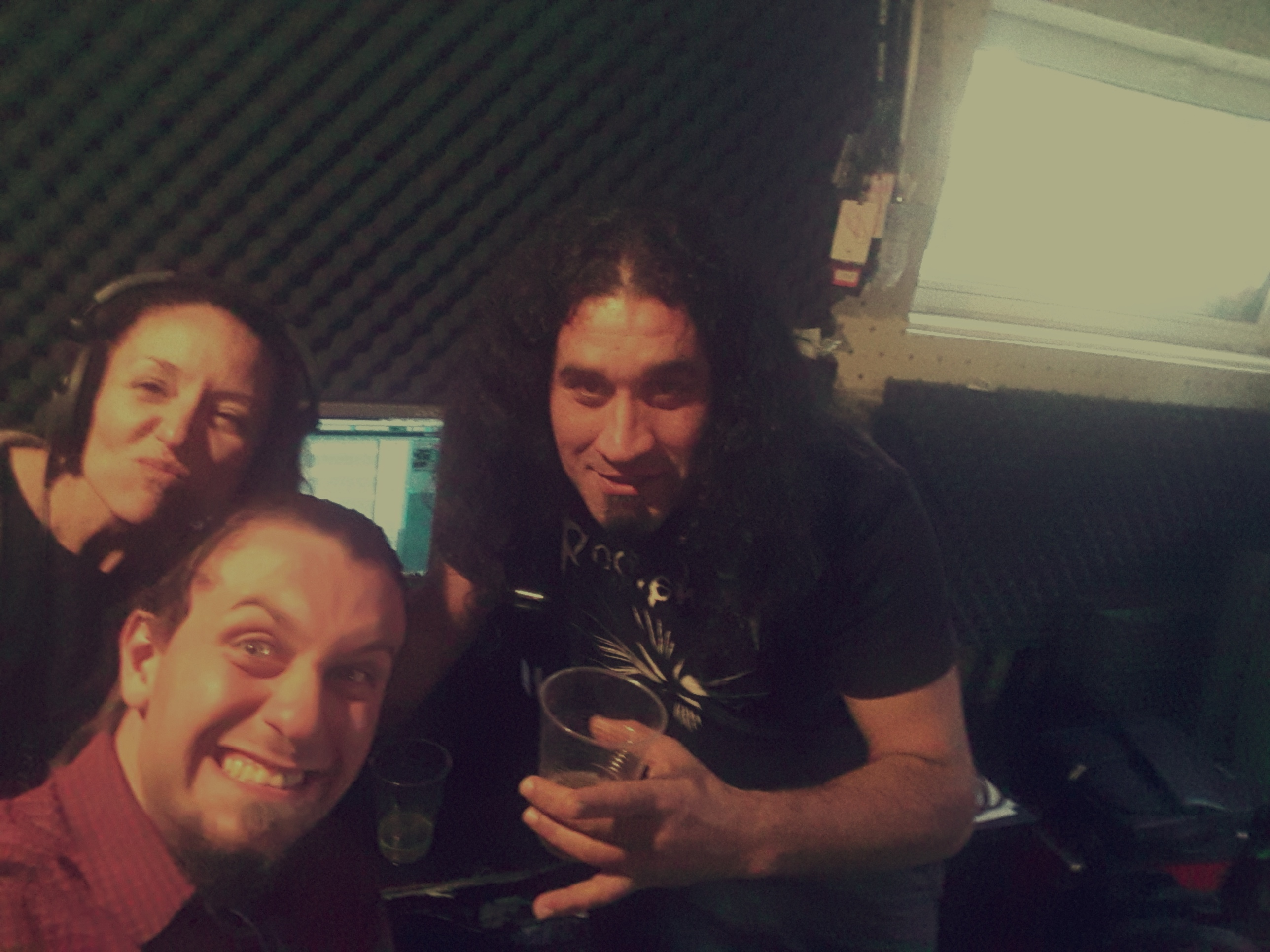 In the Recording stidio